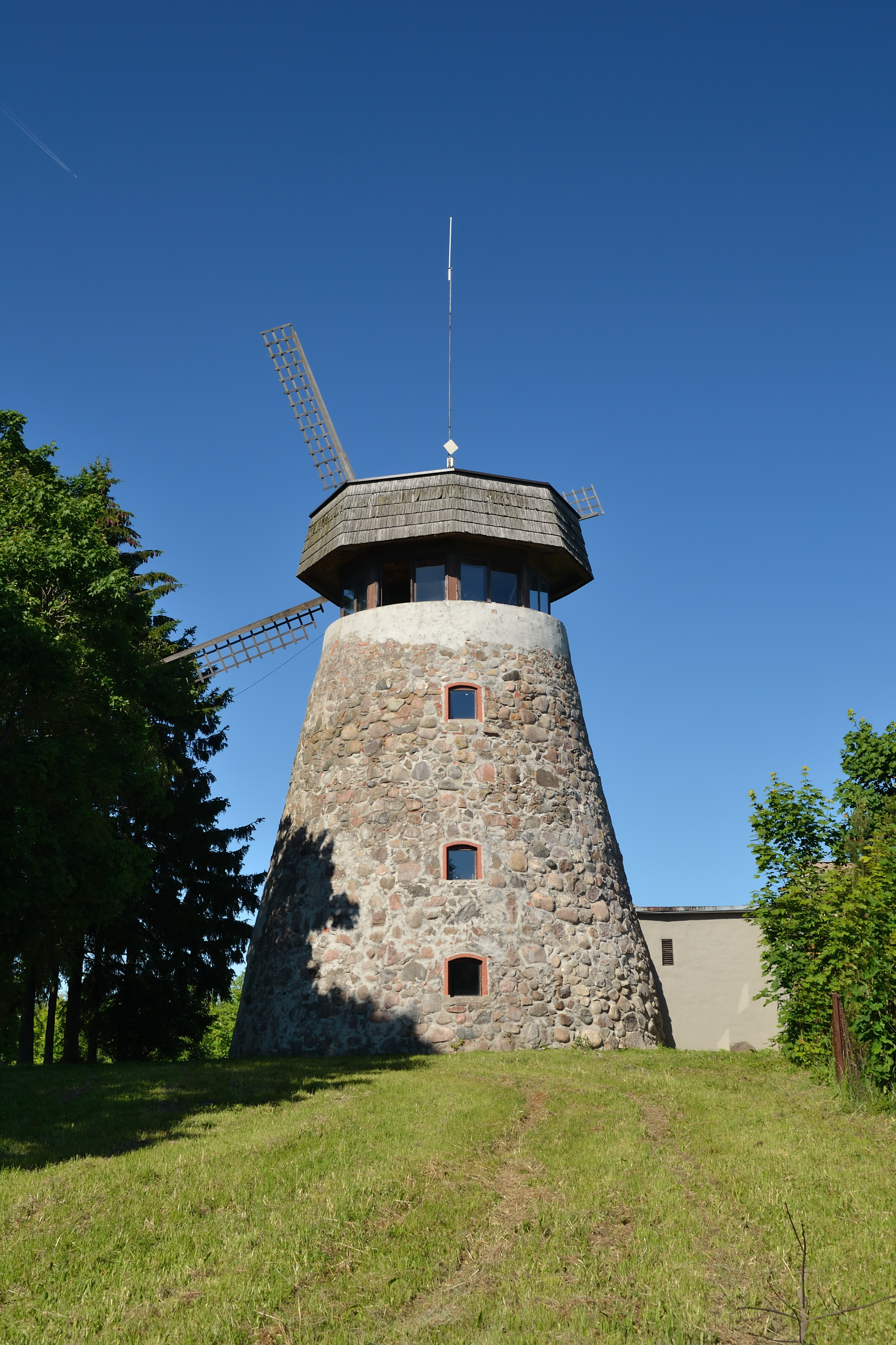 Tabivere windmill